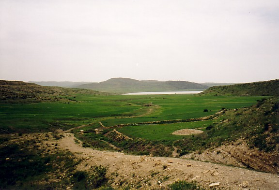 Chichat (from Endazoey)